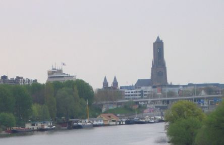 Eusebiuskerk, Arnhem, the Netherlands